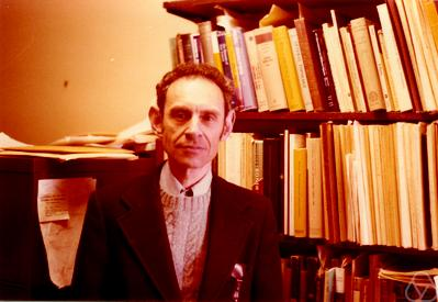 Leonard (or Leonhard) Sarason at Seattle (presumably the University of Washington)